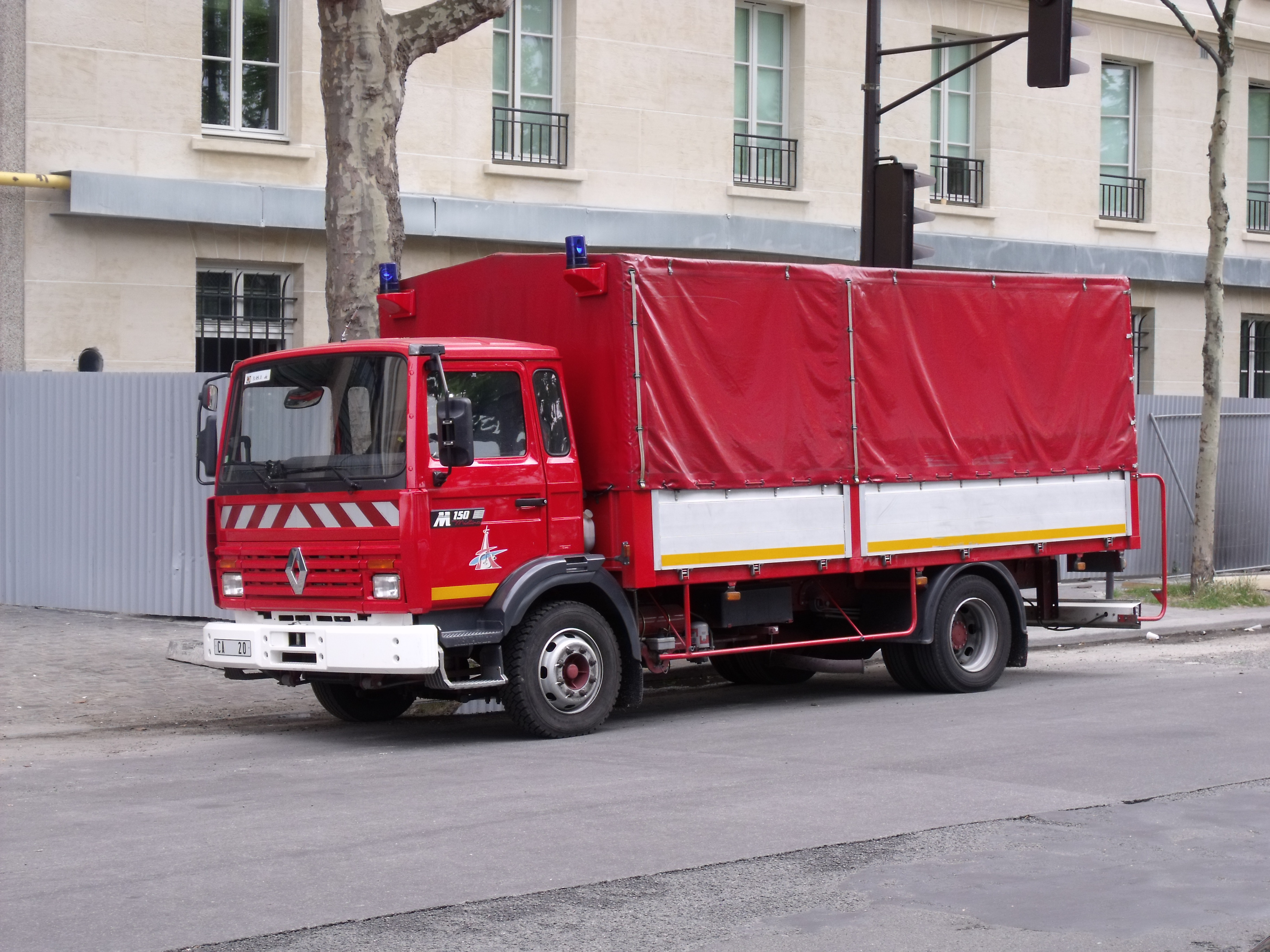 Fire support truck CA20 of Paris Fire Brigade.